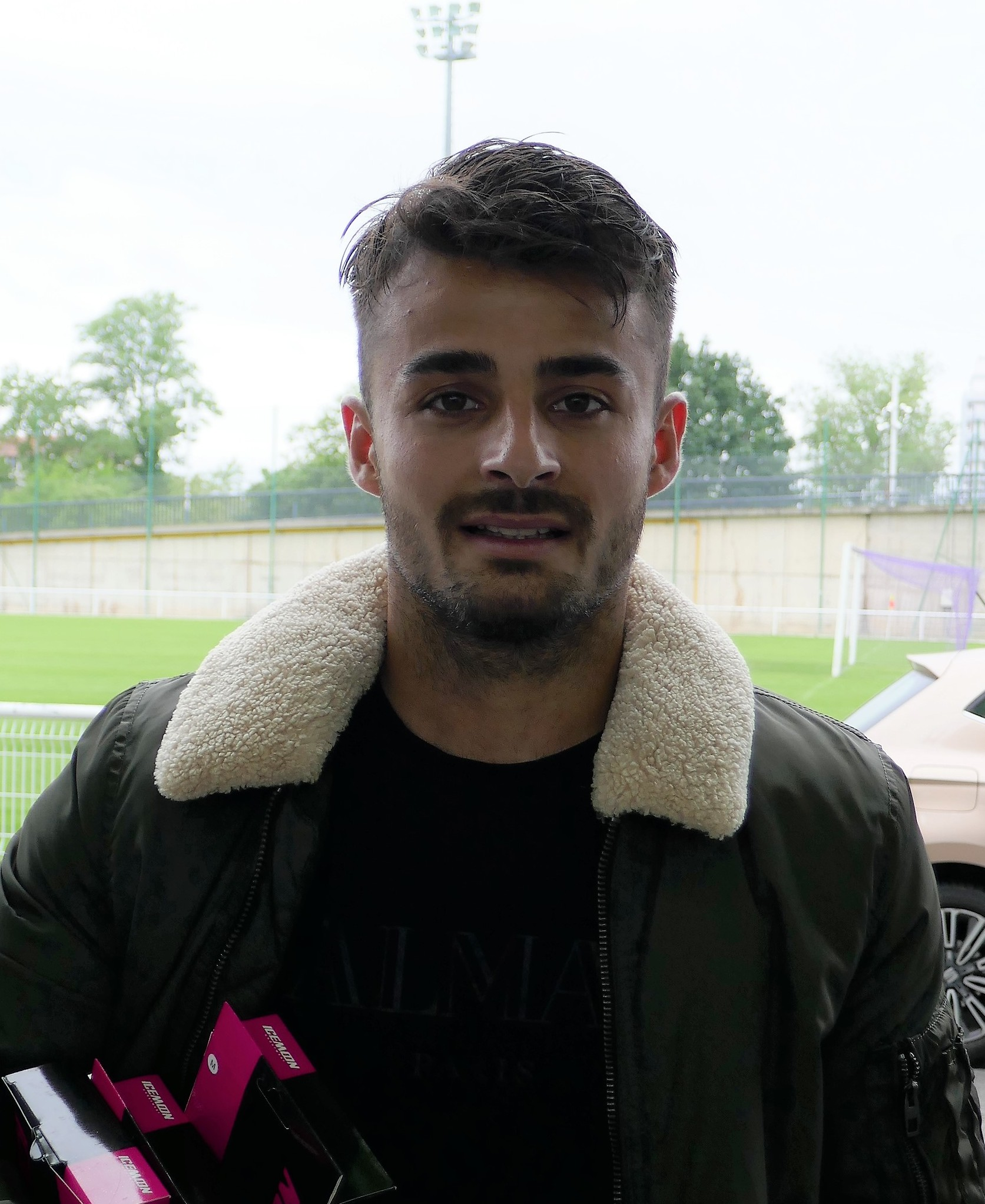 Corentin Jean after a training session, the 9th May of 2018, at the training center of the Toulouse Football Club.